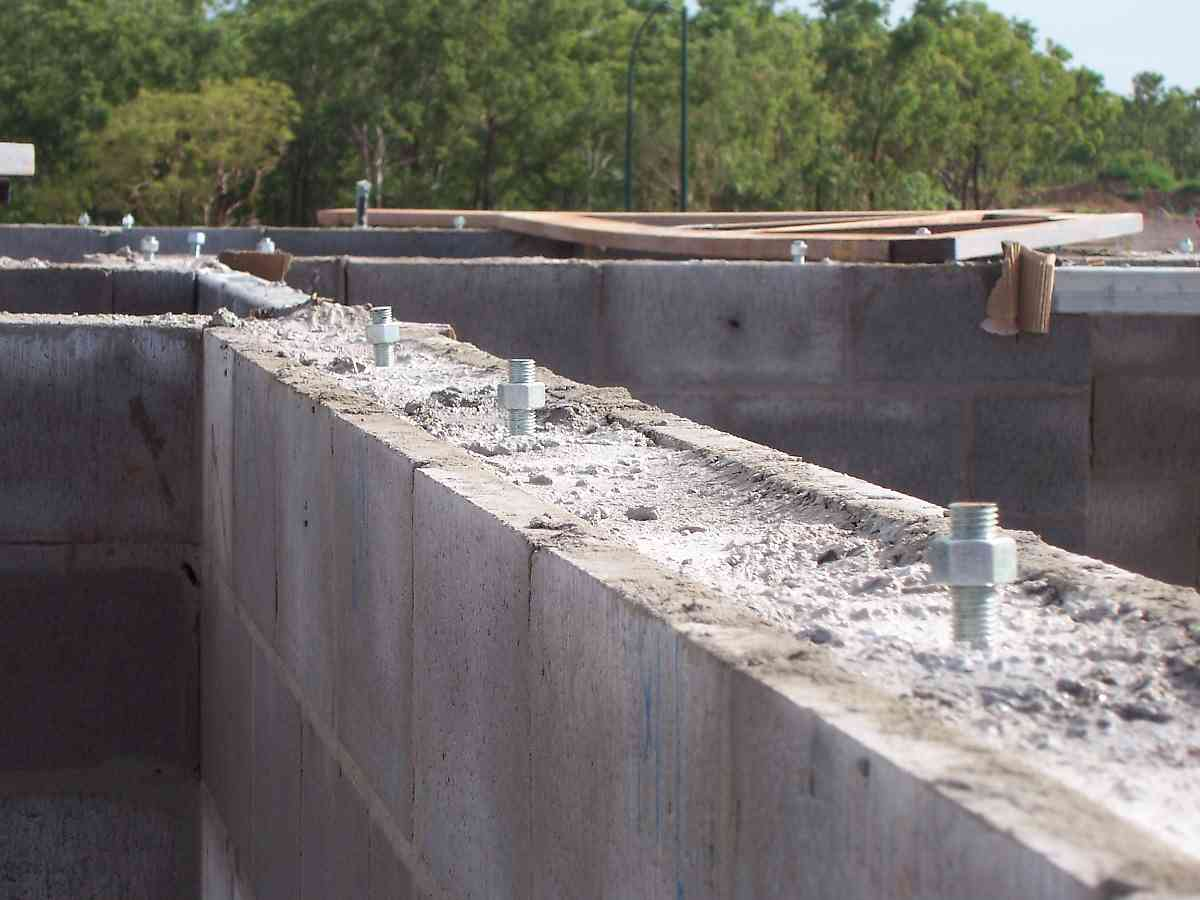 An example of cyclonic construction methods in residential construction in Darwin, Northern Australia. 16mm Cast in hold down bolts. 150 to 300 long cast into blockwork bond beams. Typically these HD bolts are cut out of 3M lengths of threaded rod (all thread) and have a cog on the end.